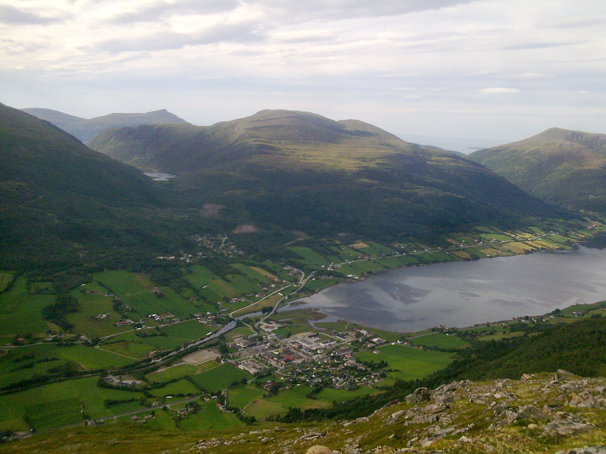 View from the South over the southwestern end of Batnfjord with the village of Batnfjordsøra